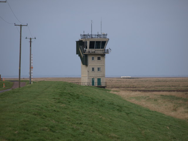 Holbeach Range Control Tower This is one of my favourite places. I like to go down in the summer and look out over the marshes listening to the distant cries of the seabirds. Then in roars an A10 tankbuster with a ground shaking cannon burst and a cloud of sand flies up. Brilliant!